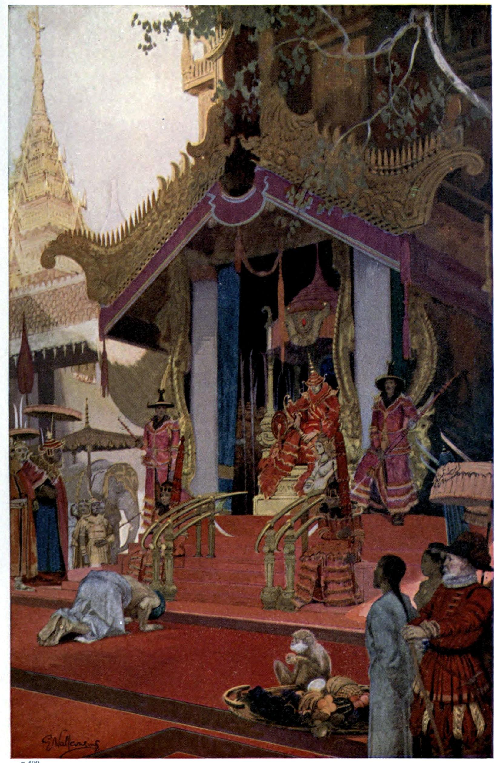 Pioneers in India by Johnston, Harry Hamilton, Sir, 1858-1927 Publication date 1913 Topics India -- Discovery and exploration, India -- History European settlements 1500-1765, India -- History British occupation, 1765-1947 Publisher London [etc.] : Blackie and son, limited Collection cdl; americana Digitizing sponsor MSN Contributor University of California Libraries Language English Bookplateleaf 4 Call number SRLF:LAGE-230522 Camera 5D Collection-library SRLF Copyright-evidence Evidence reported by alyson-wieczorek for item pioneersinindia00johniala on June 18, 2007: no visible notice of copyright; stated date is 1913. Copyright-evidence-date 20070618175118 Copyright-evidence-operator alyson-wieczorek Copyright-region US Identifier pioneersinindia00johniala Identifier-ark ark:/13960/t8bg2ks7d Identifier-bib LAGE-230522 Lcamid 1020705142 Openlibrary_edition OL7099511M Openlibrary_work OL1094605W Pages 372 Full catalog record MARCXML